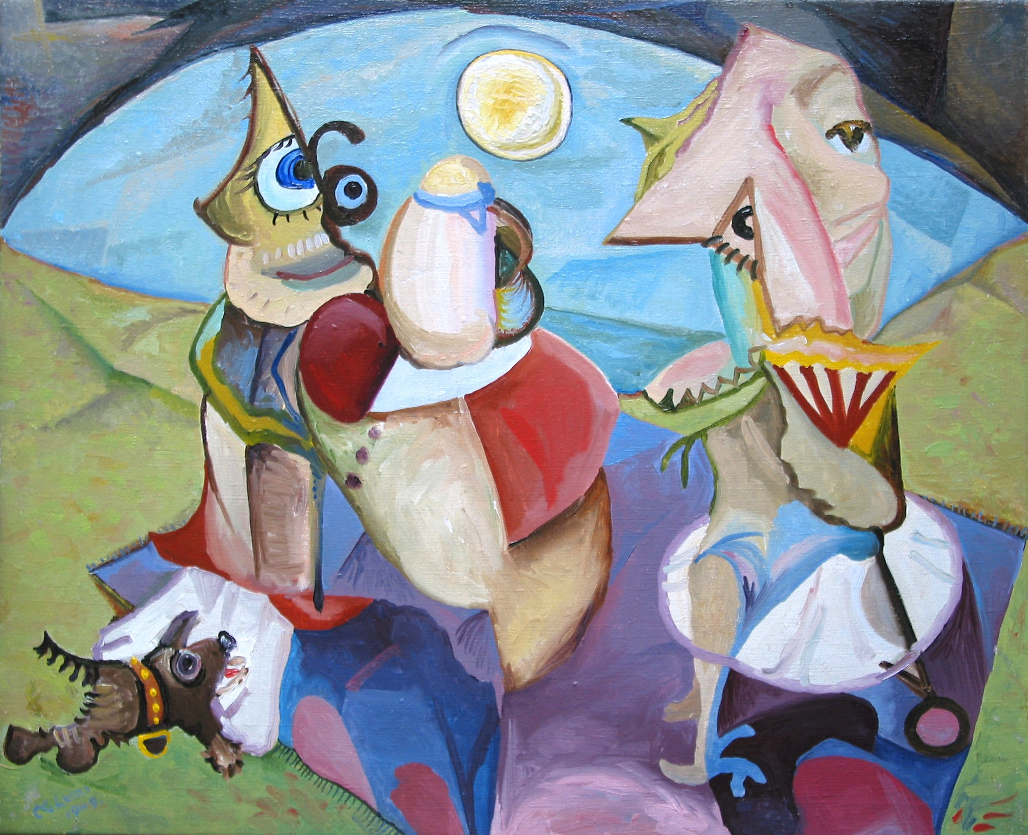 Oil painting by Edwin G Lucas, painted in 1949